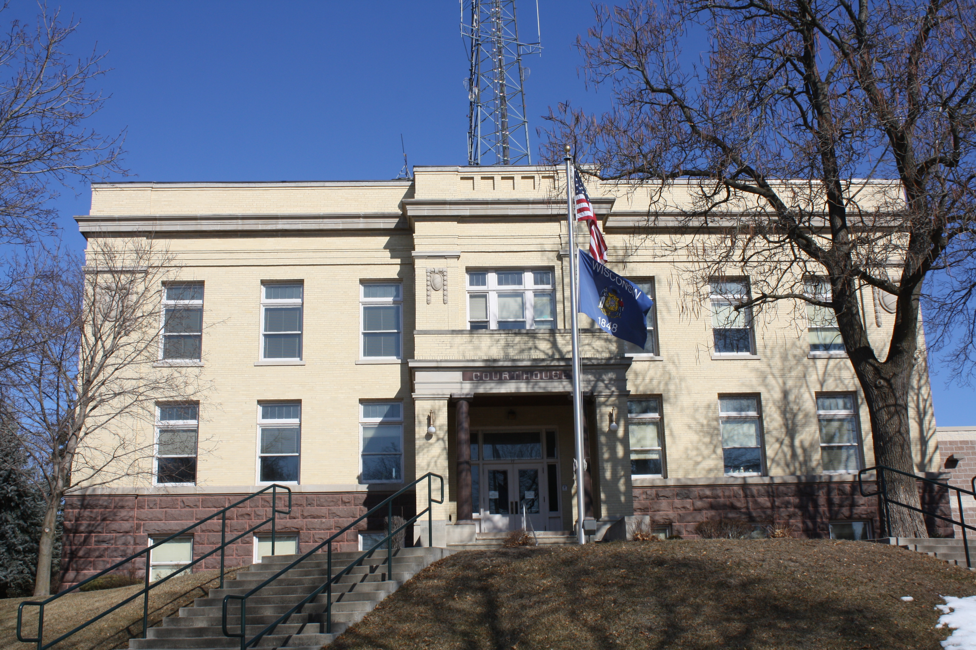 The Marquette County, Wisconsin courthouse, listed on the National Register of Historic Places as the Marquette County Courthouse and Marquette County Sheriff's Office and Jail.